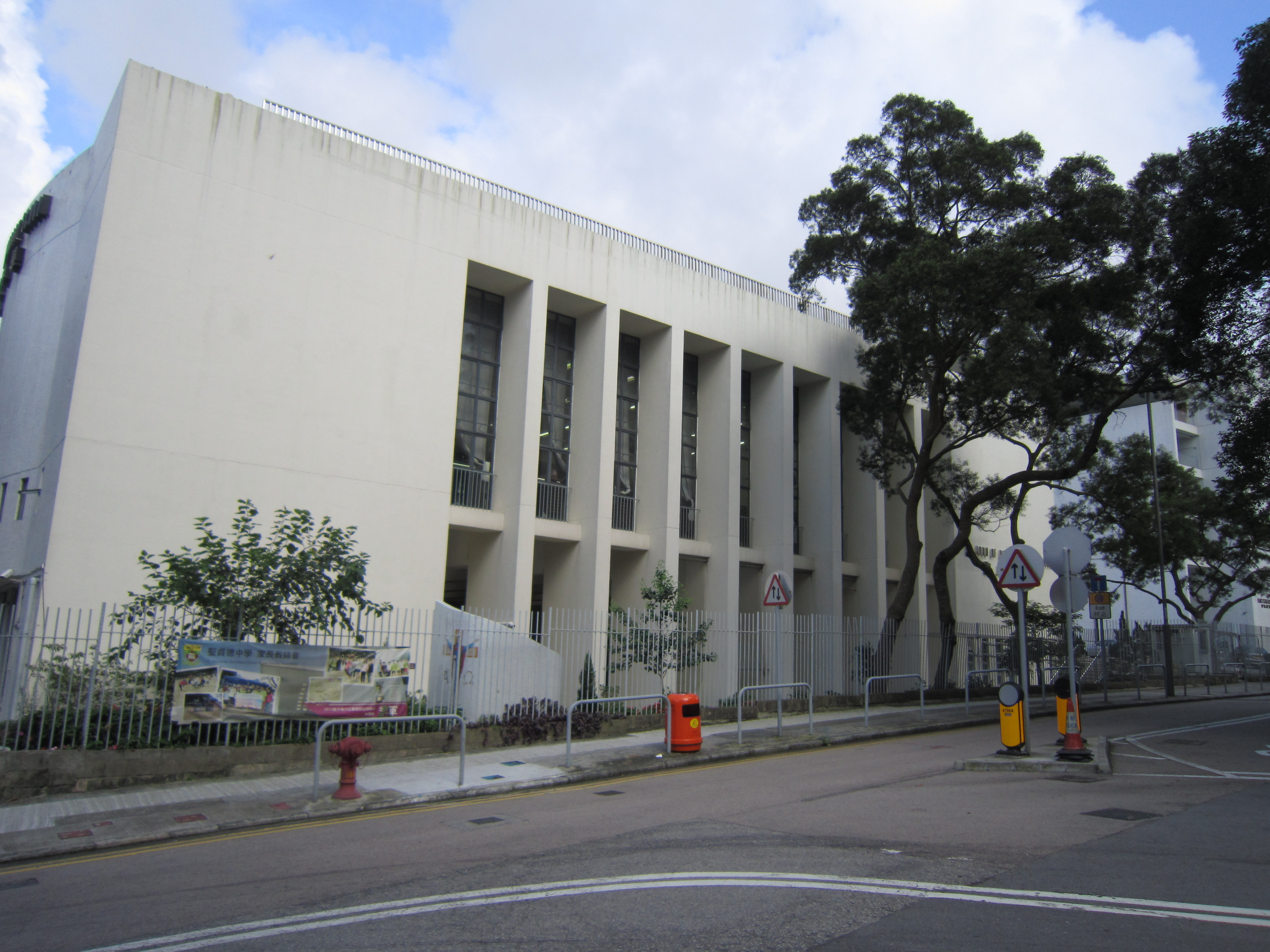 St. Joan Of Arc Secondary School campus